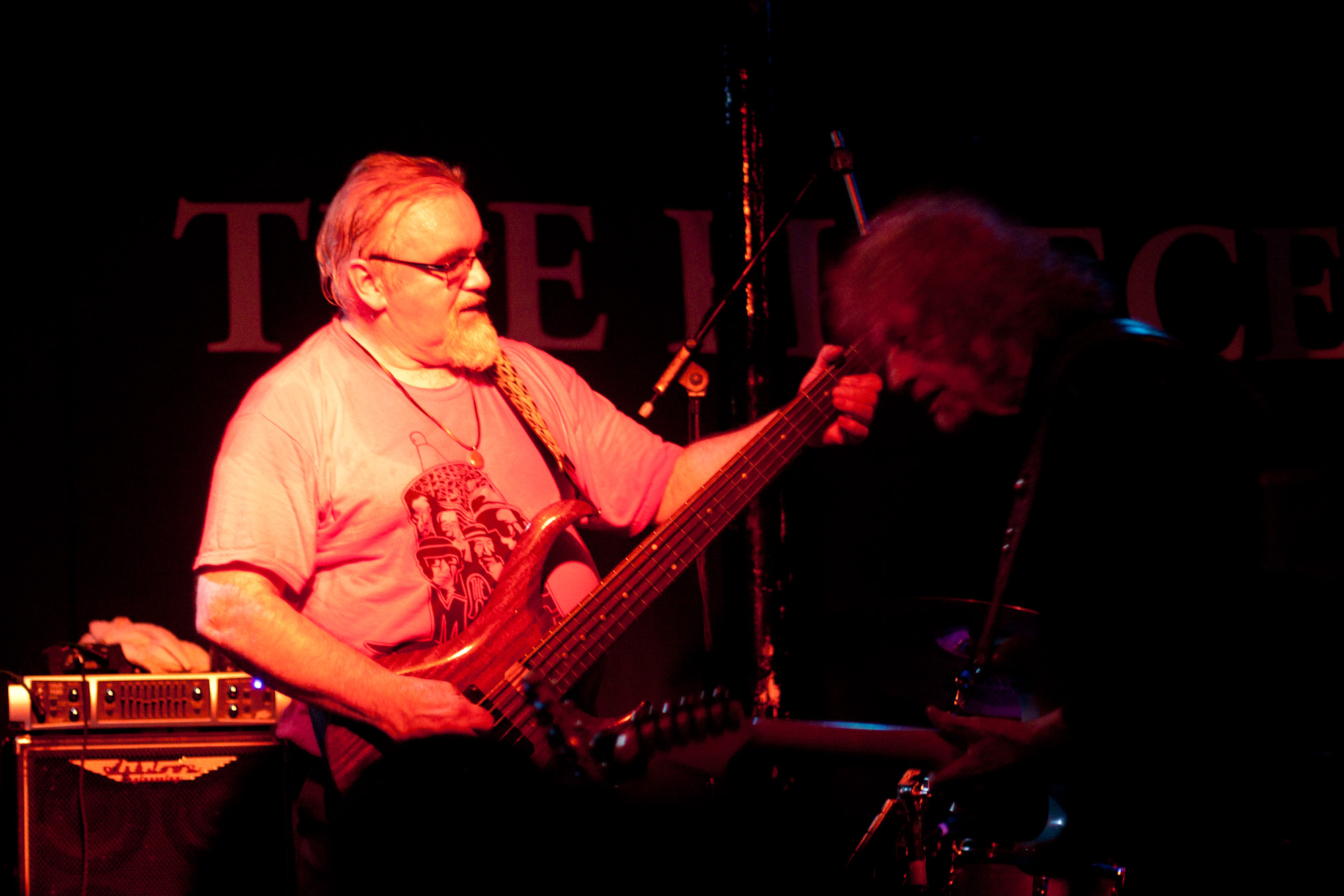 The Magic Band members Rockette Morton and Feelers Rebus (March 4, 2013)